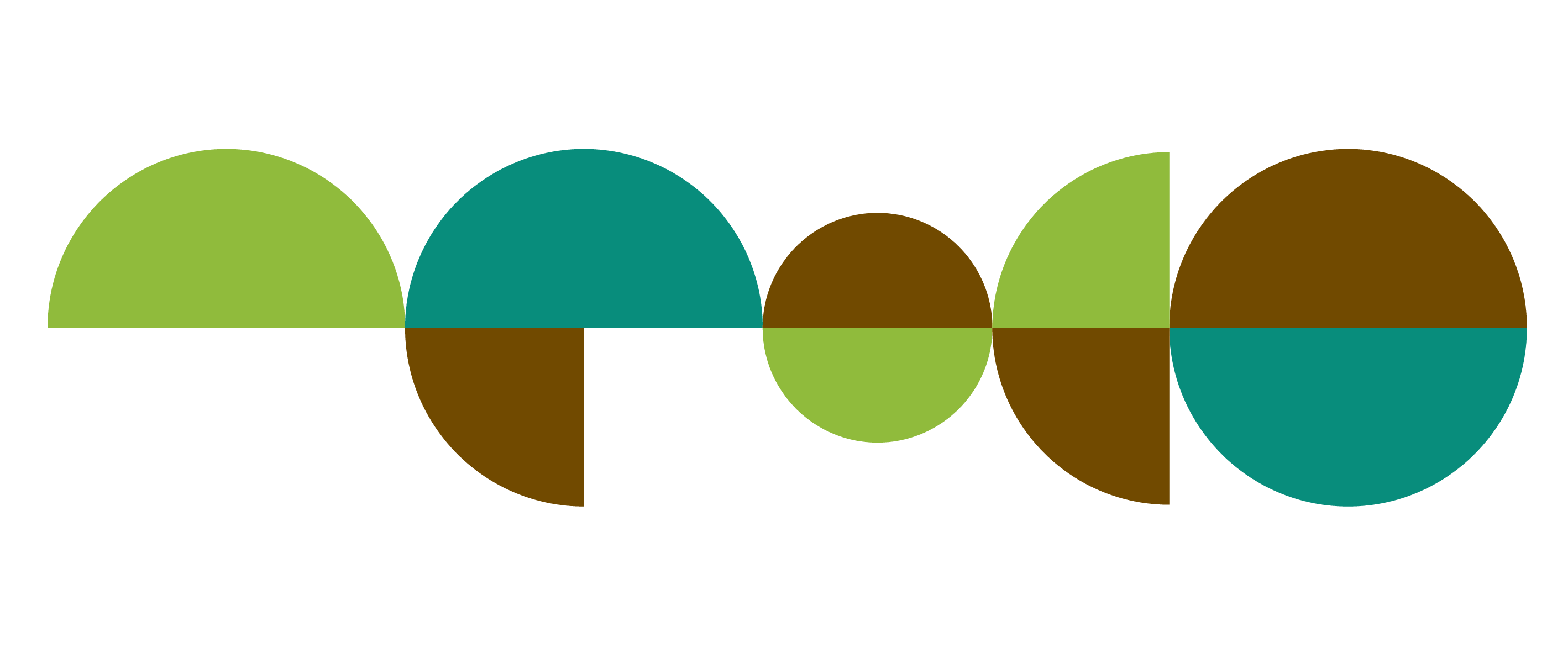 The AFoCO emblem is a combination of circles, semicircles, and circular quadrants, and it resembles the alphabetical shape of "AFoCO". The colors of the emblem represent all types of forests sustainably managed in harmony with all living things.